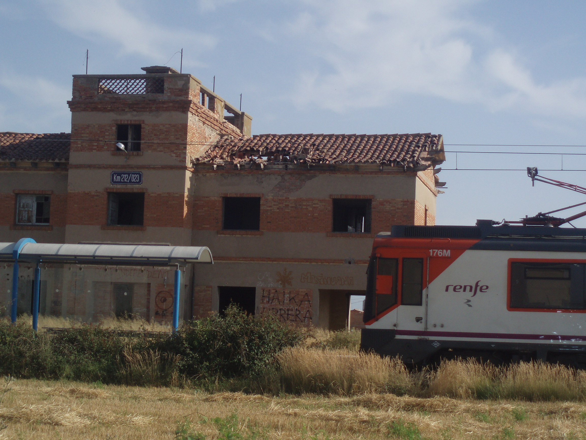 Castellnou de Seana station building seen from the platform.